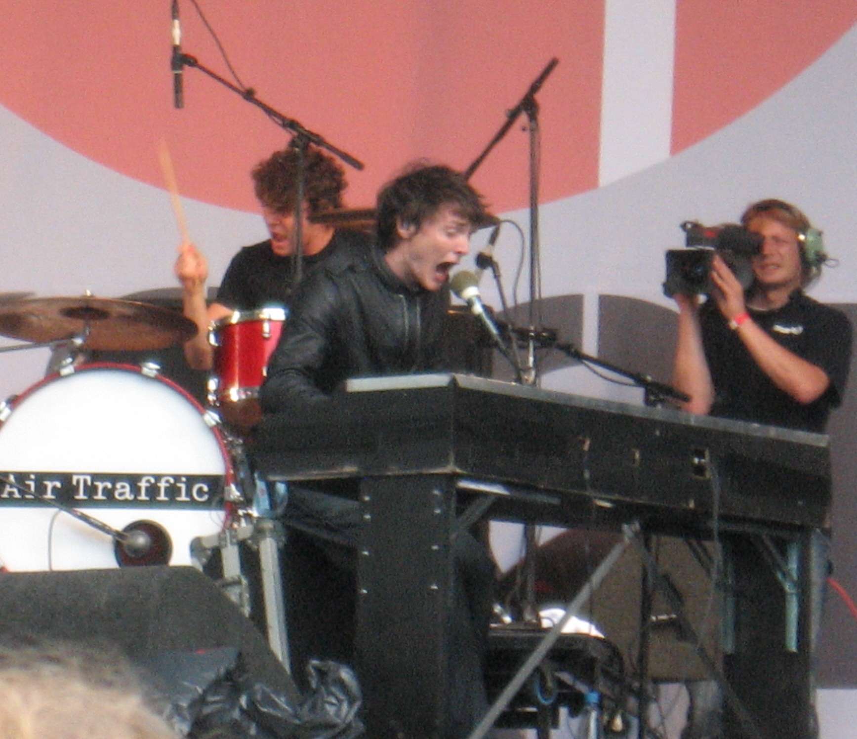 Air Traffic (band), Chris Wall, Parkpop 2007, Den Haag